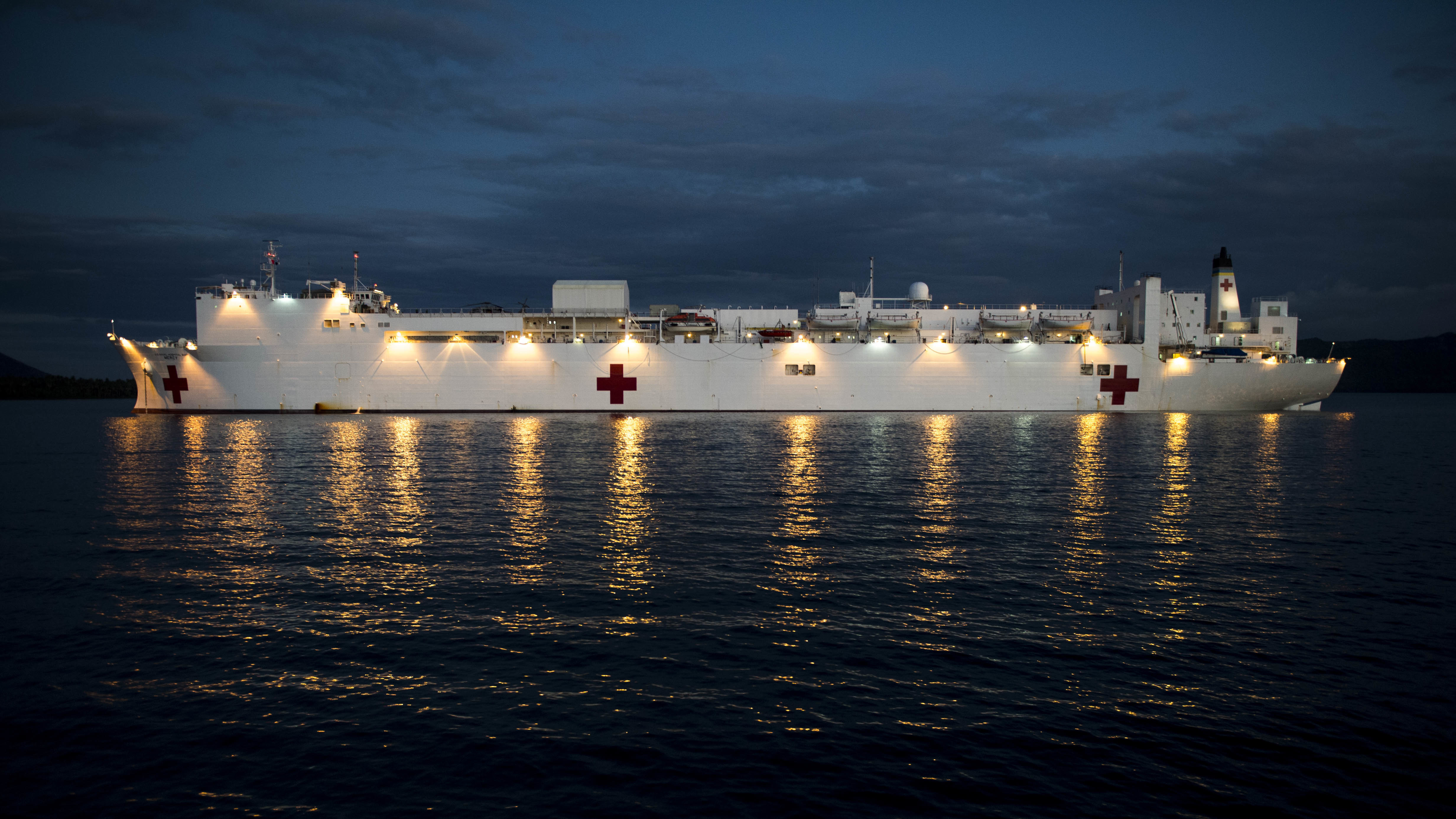 RABUAL, Papua New Guinea (July 8, 2015) The hospital ship USNS Mercy (T-AH 19) sits at anchorage in Simpson Harbor off the coast of Rabual during Pacific Partnership 2015. Mercy is currently in Papua New Guinea for its second mission port of PP15. Pacific Partnership is in its 10th iteration and is the largest annual multilateral humanitarian assistance and disaster relief preparedness mission conducted in the Indo-Asia-Pacific region. While training for crisis conditions, Pacific Partnership missions to date have provided real world medical care to approximately 270,000 patients and veterinary services to more than 38,000 animals. Critical infrastructure development has been supported in host nations during more than 180 engineering projects. (U.S. Air Force photo by Senior Airman Peter Reft/RELEASED)